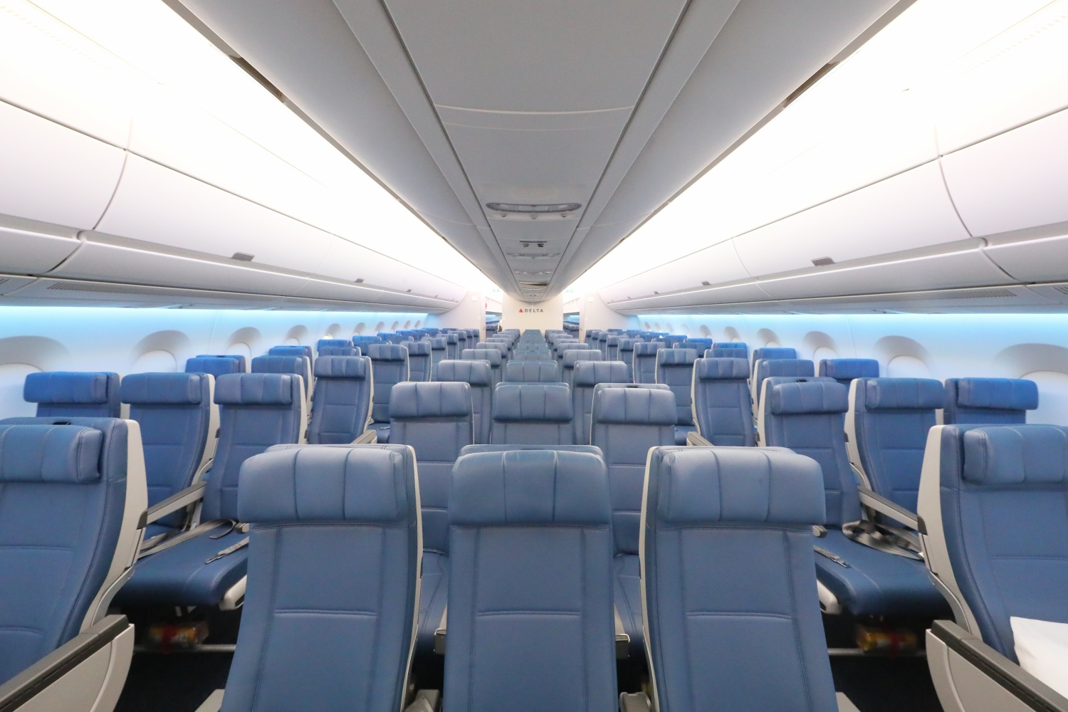 A350: Interior - Main Cabin